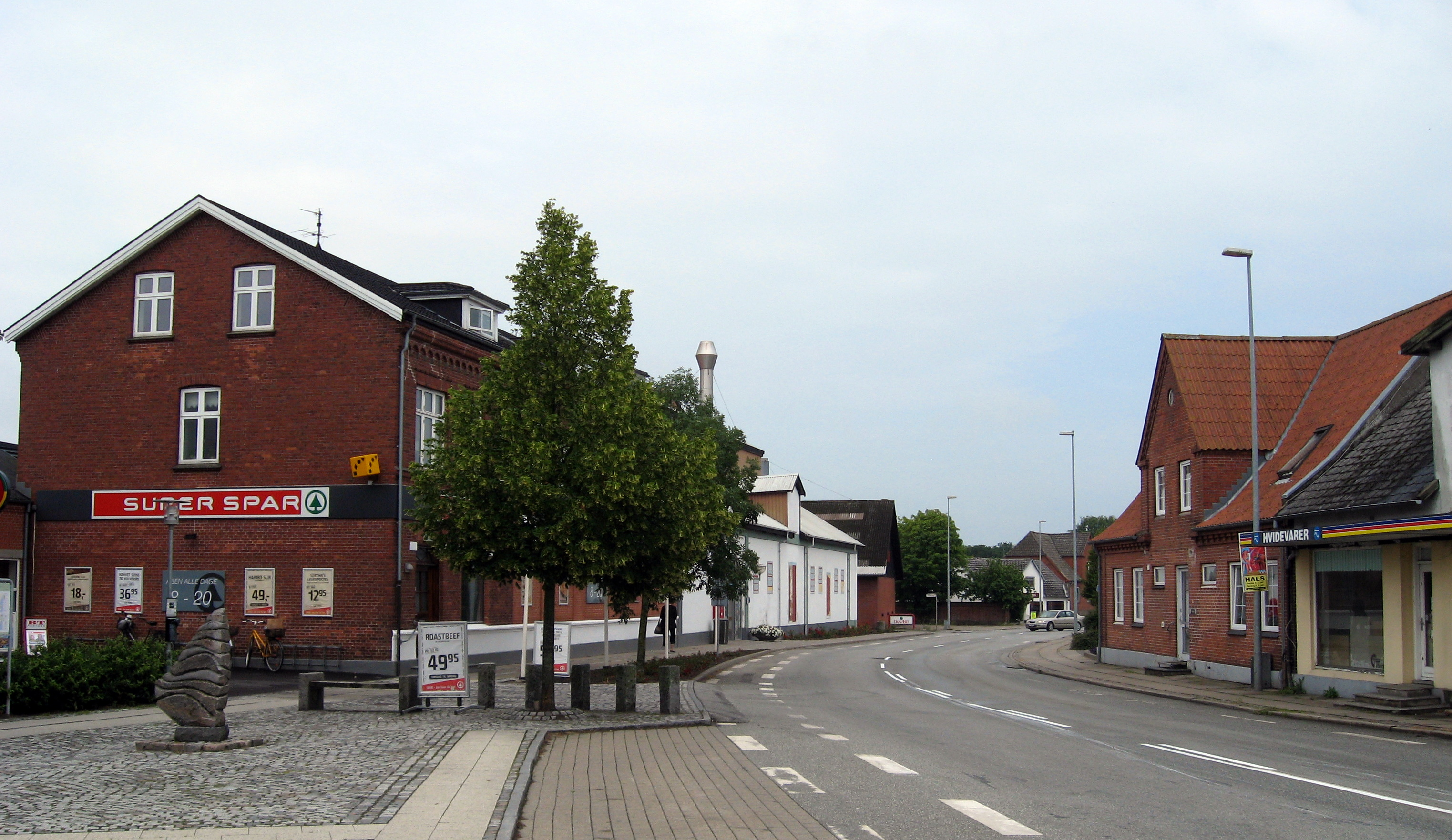 Super Spar shop in Asaa, a town in northern Denmark